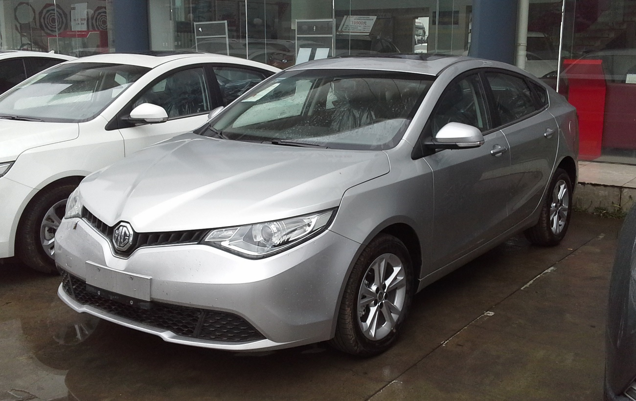 MG GT photographed in Shanghai, China.